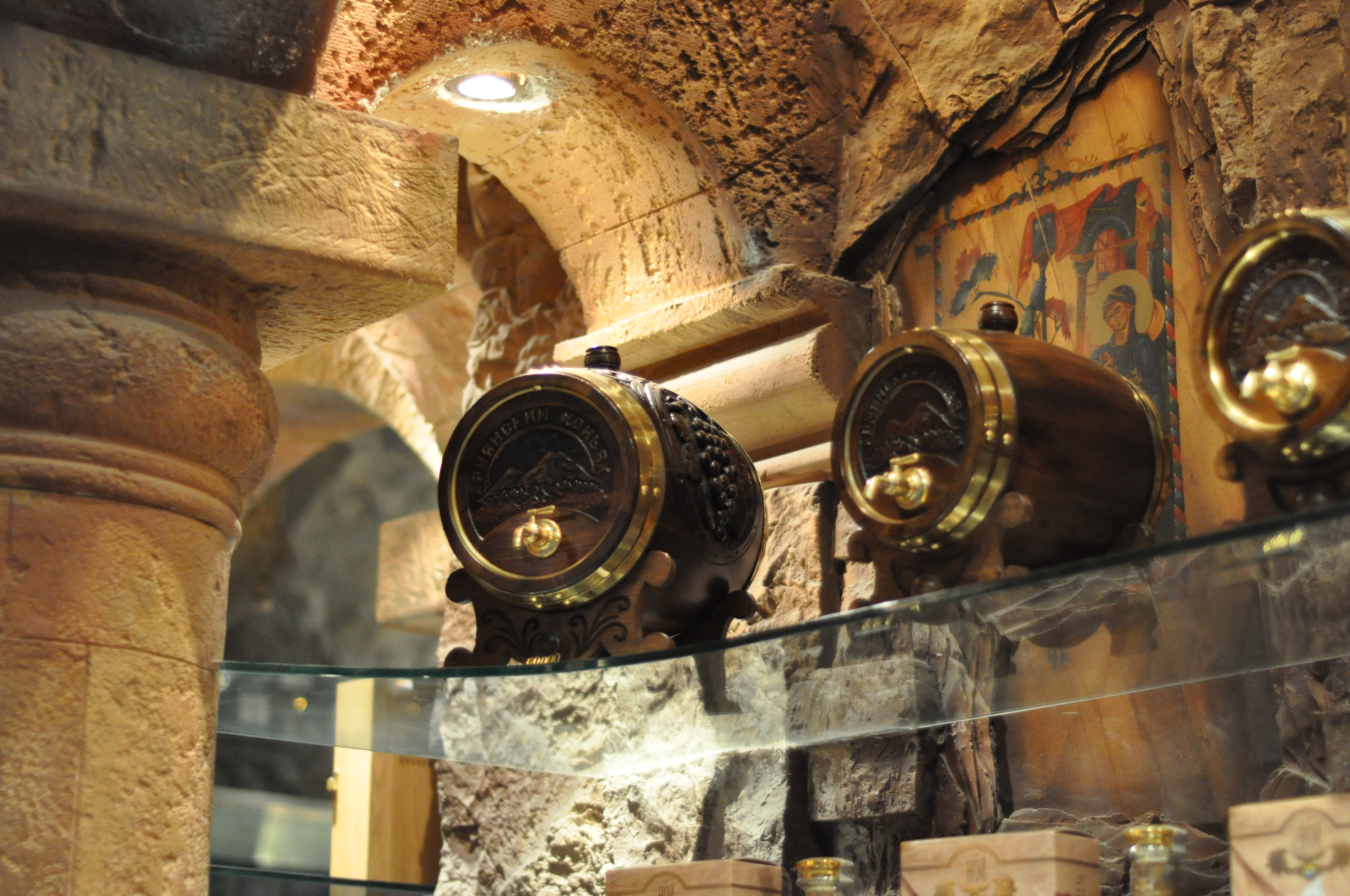 Yerevan Brandy Company